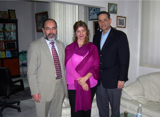 Dr. Ehtuish Farag Ehtuish, the Director of the Libyan National Transplantation program, Dr. Francis Delmonico, Professor of Surgery at Harvard Medical School and Dr. Debra Budiani, COFS’ Executive Director and specialist on transplants in the Middle East.